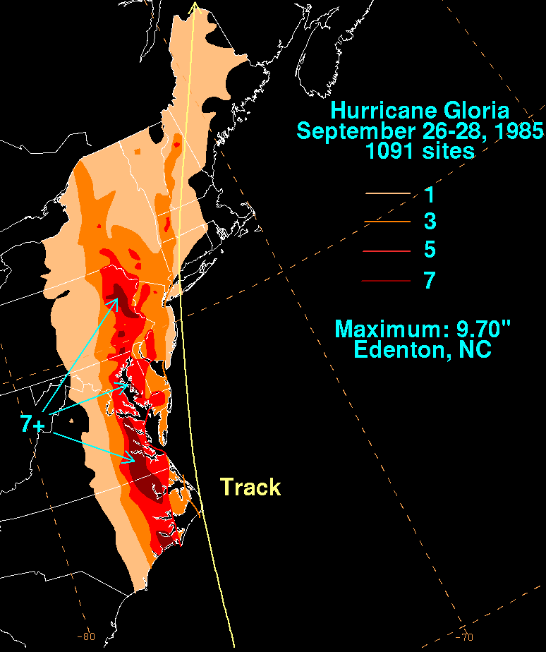 Rainfall produced by Hurricane Gloria during September 1985.